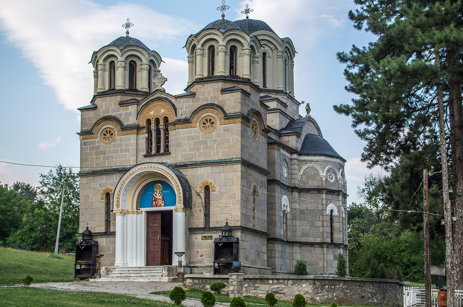 Church St. Athanasius - Lesok, Tetovo, Macedonia